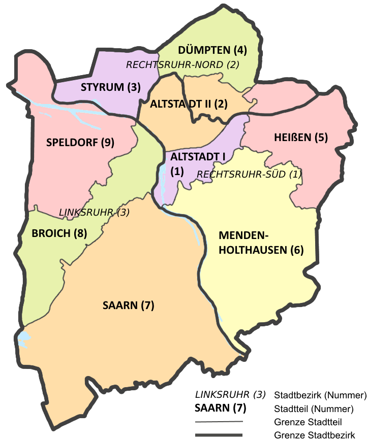 Map of the neighbourhoods and city districts of Mülheim an der Ruhr.